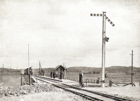 Train stop Tingberg at the railway line Bergslagsbanan 1905.